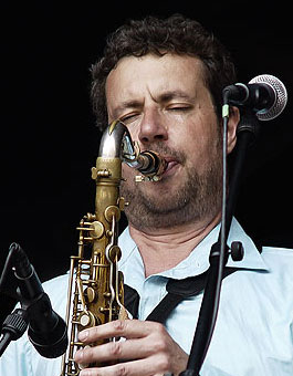 Thomas Agergaard